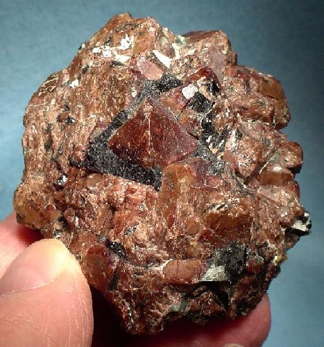 Eudialyte, Aegirine Locality: Kangerdluarssuq (Kangerdluarssuk; Kangerdluarsuk) Firth, Ilimaussaq complex, Narsaq, Kitaa (West Greenland) Province, Greenland (Locality at ) Size: 6.1 x 5.3 x 4.3 cm. A rich and showy specimen of sharp and lustrous, chocolate-colored eudialyte crystals to 1.4 cm associated with black aegirine as a nice accent, from very close to the Type Locality in Greenland. There is contacting, but this is a highly representative specimen of the two species and locality. Originally labeled as zircon altering to eudialyte, this is unlikely. I've been told that there are "numerous references in papers of mineralogy, petrology and geochemistry of Zircon replacing Eudialyte, but not the other way around. There is known one report of Eudialyte formed hydrothermally with indications of Zr being mobilized from preformed Zircon (in the Pilanesberg complex of South Africa eudialyte is interpreted to be hydrothermal formed from an orthomagmatic Na-Nb-REE-Cl-F-solution that exsolved from an agpaitic syenitic magma. In this system the Zr was probably remobilized from an originally formed magmatic zircon. But under such conditions any direct replacement in the form of pseudomorphs would be very unlikely from the petrological description.) This is not the case here. Ex. George Ellng Collection.